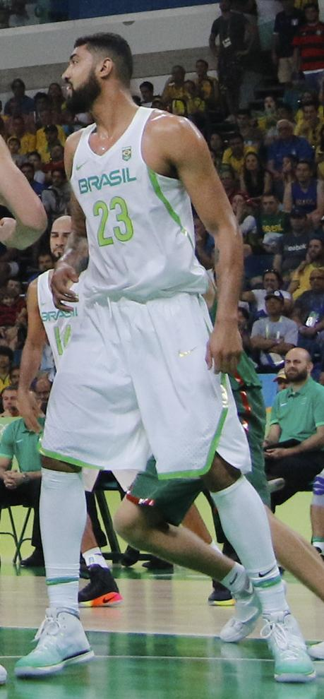 Augusto Lima during a 2016 Summer Olympics game versus the Lithuania men's national basketball team.